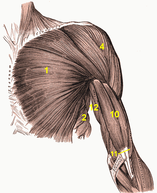 superficial front muscles of arm, names replaced by numbers